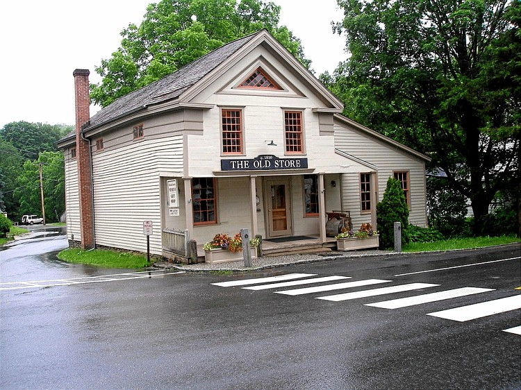 The Old Store in Sherman, Connecticut; part of the Sherman Historic District.